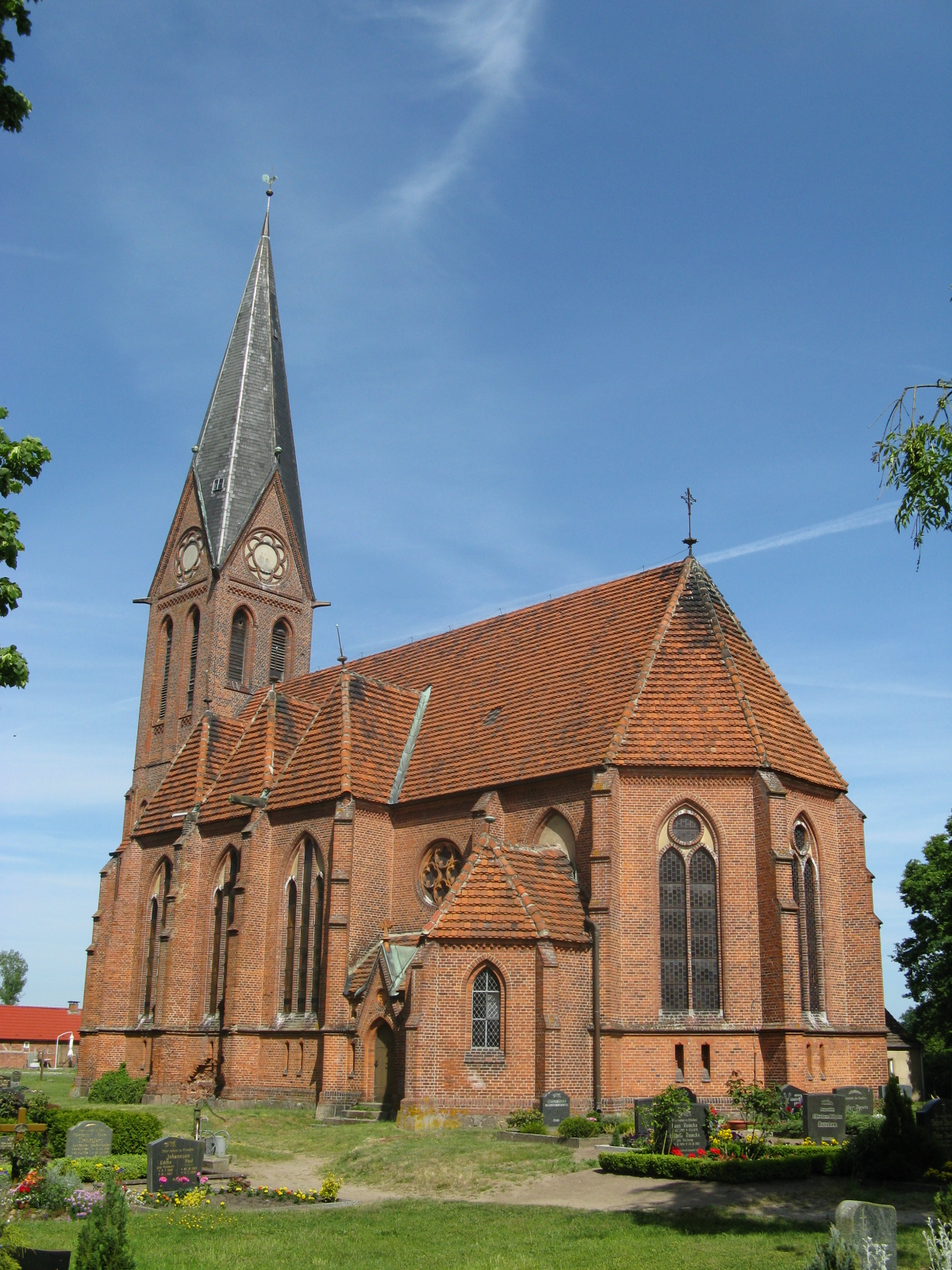 Church in Blücher, Mecklenburg-Vorpommern, Germany